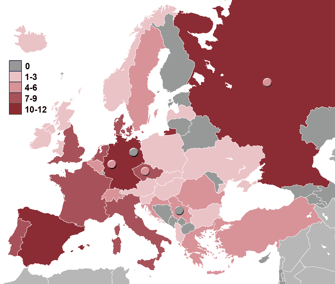 Number of times UEFA members have participated in the UEFA Euro Championship. Successor members are marked with accumulated color for itself and its predecessors. Inserted, a single circle shows the participation of the present member for Czech Republic, Russia and Serbia. For Germany the circles show the participation of West Germany and East Germany respectively.